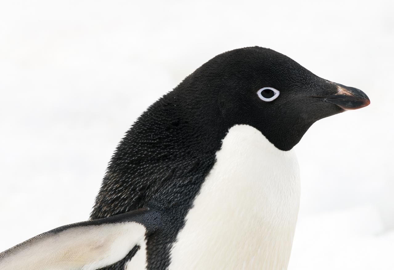 Antarctica 2013: Journey to the Crystal Desert